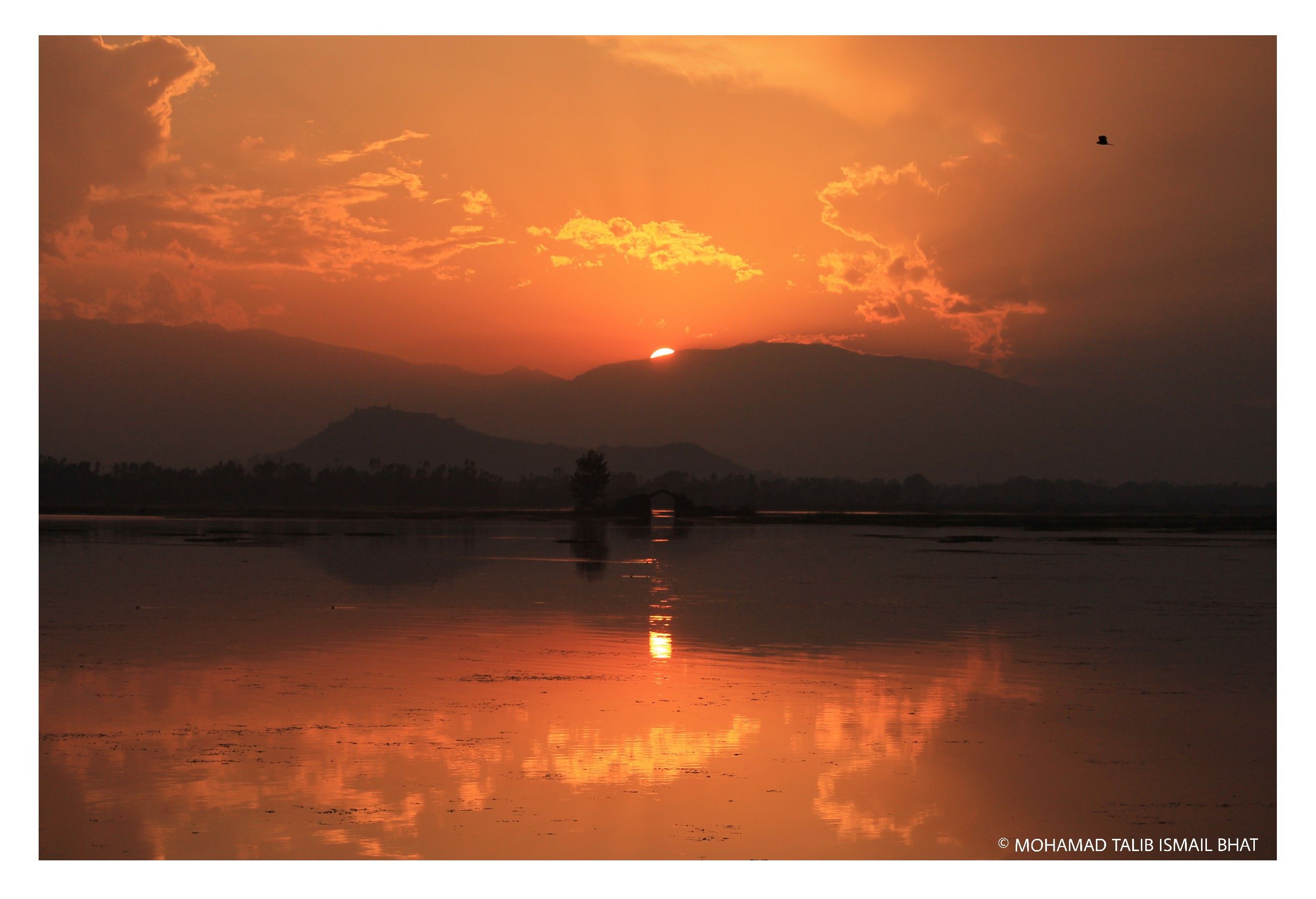 A picturesque sunset scene at Dal Lake as seen from the vantage point of Nishat Bagh.